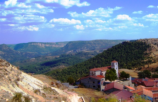 Alto Tajo from Peñalén